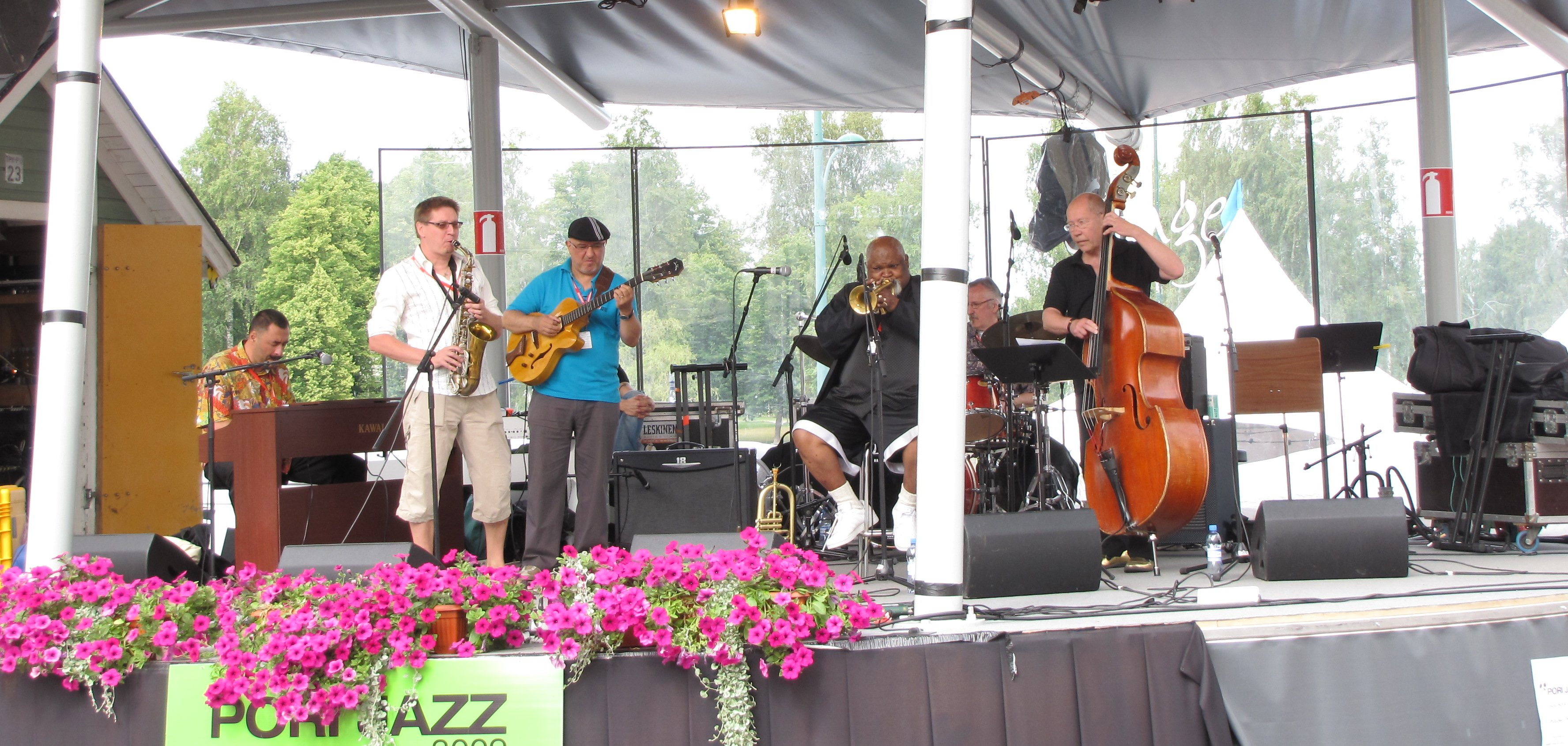 Jyrki Kangas Ensemble in Pori Jazz festival 2009.